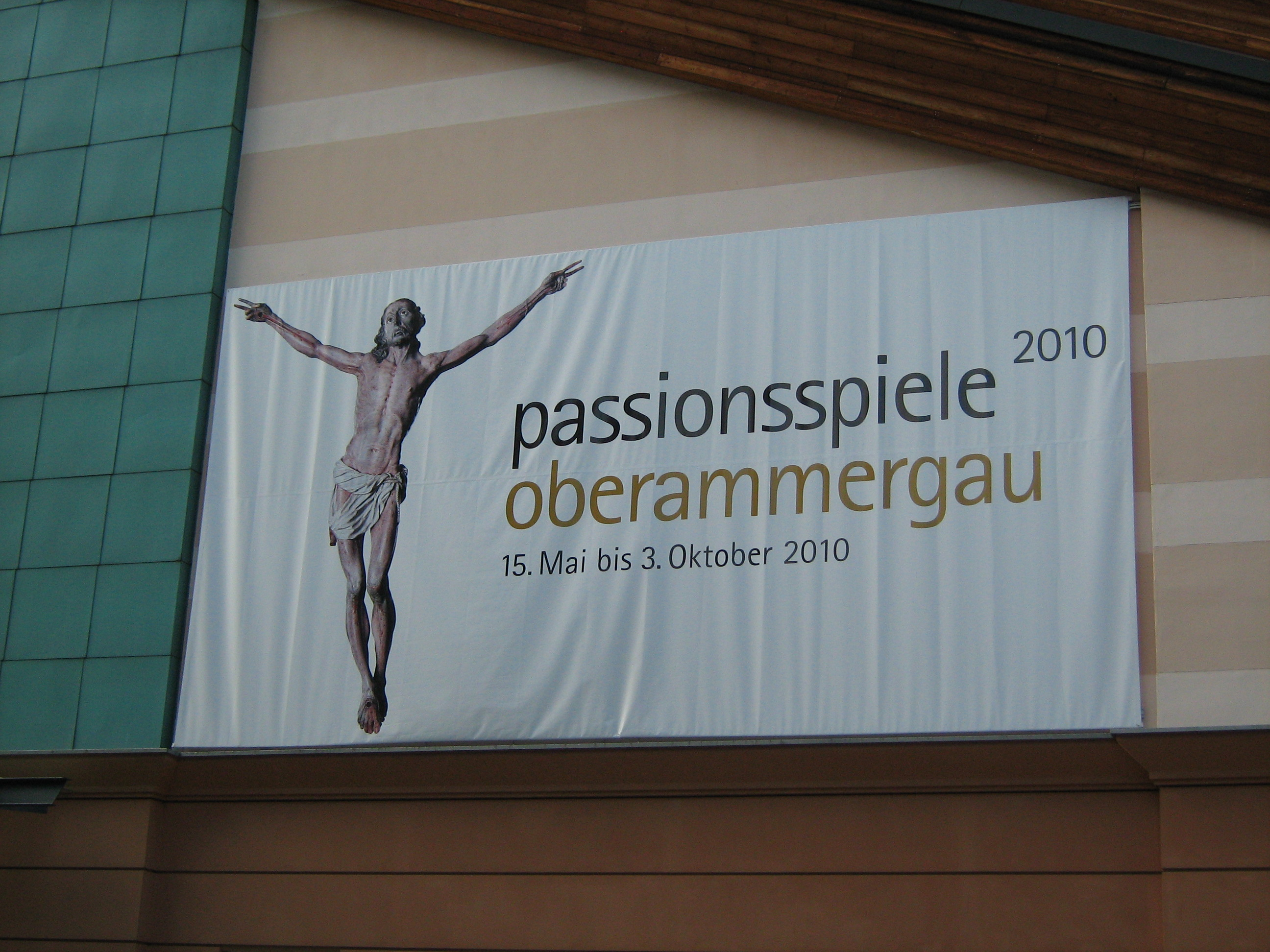 Poster outside the Passion Play Theater in Oberammergau. June 1010.